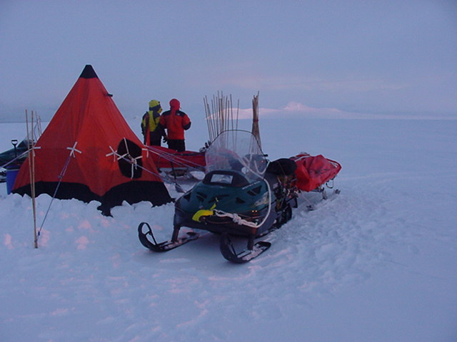 Spanish Camp on Casanovas Peak during the Antarctic summer season 2000-2001. "GEORADAR" Project.